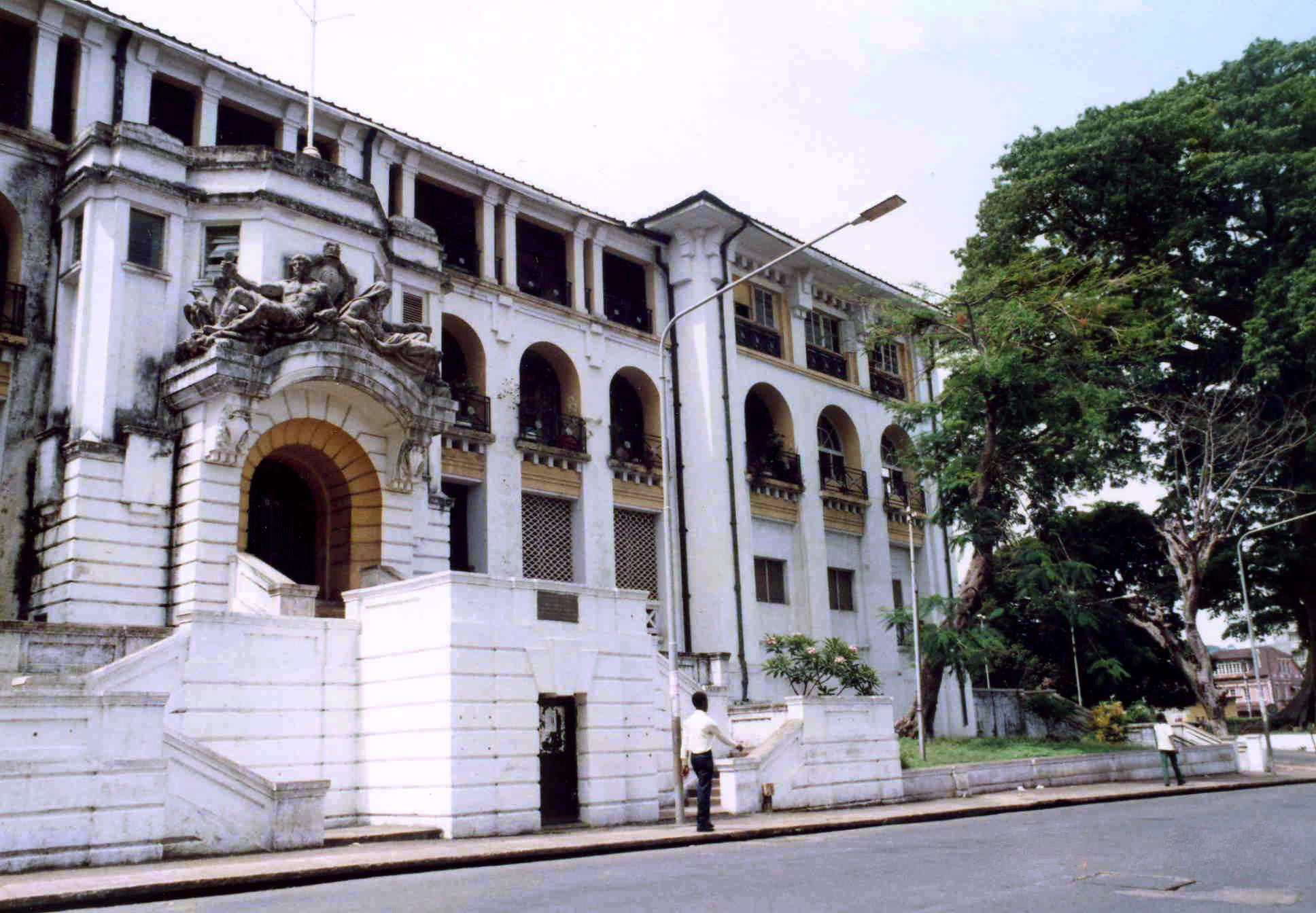 The Supreme Court of Sierra Leone, in central Freetown with the famous Cotton Tree to the right.